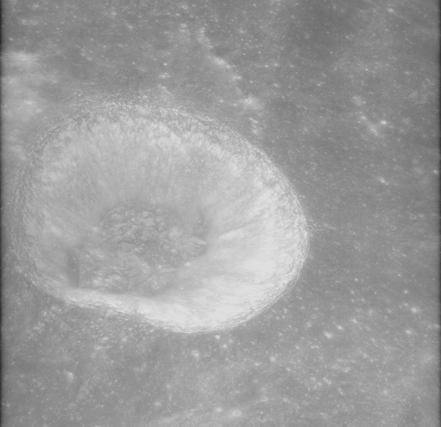 Oblique view of Al-Khwarizmi K crater, south of Al-Khwarizmi, on the moon, with north at top.